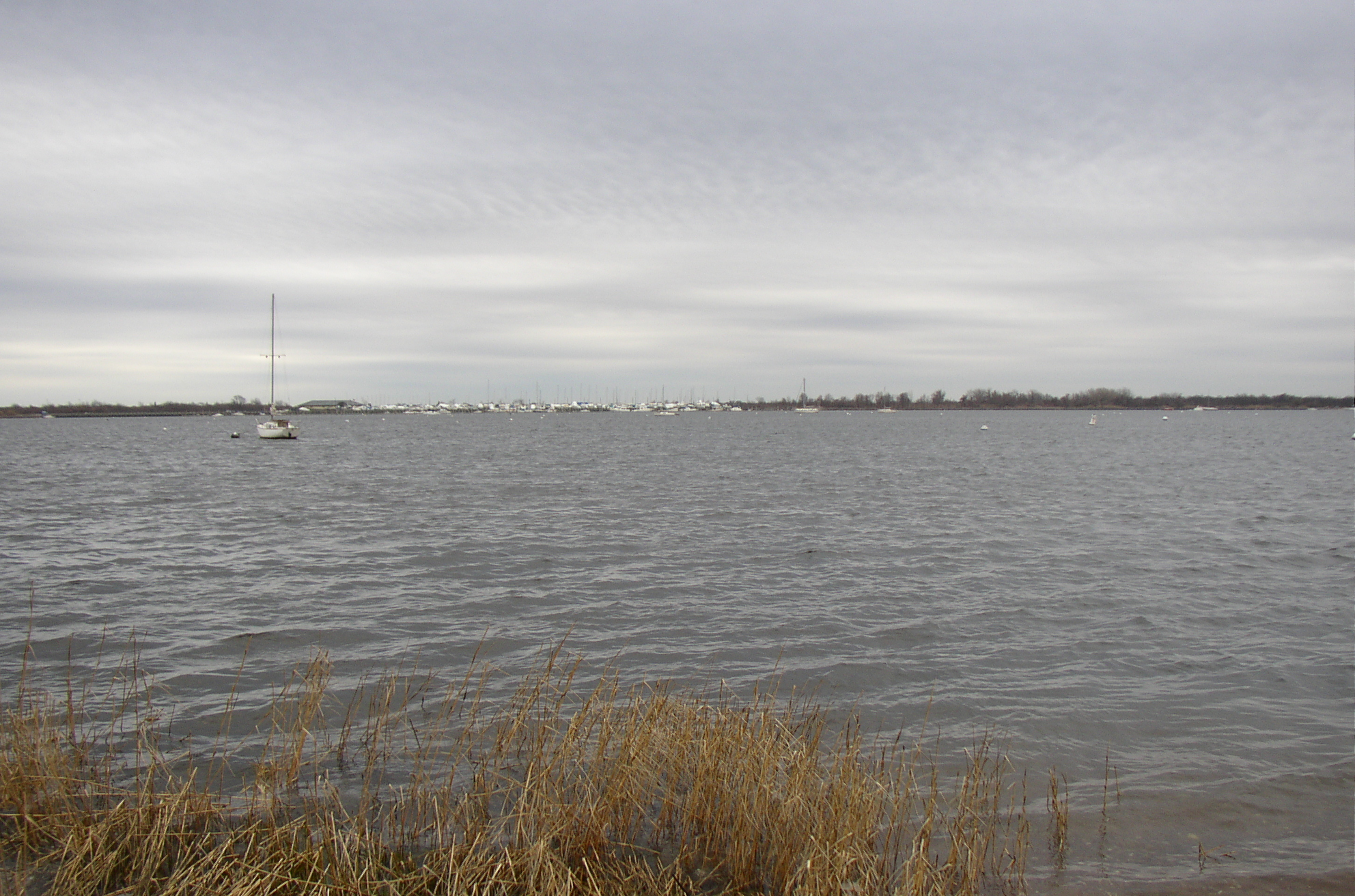 View over the bight in Great Kills Park